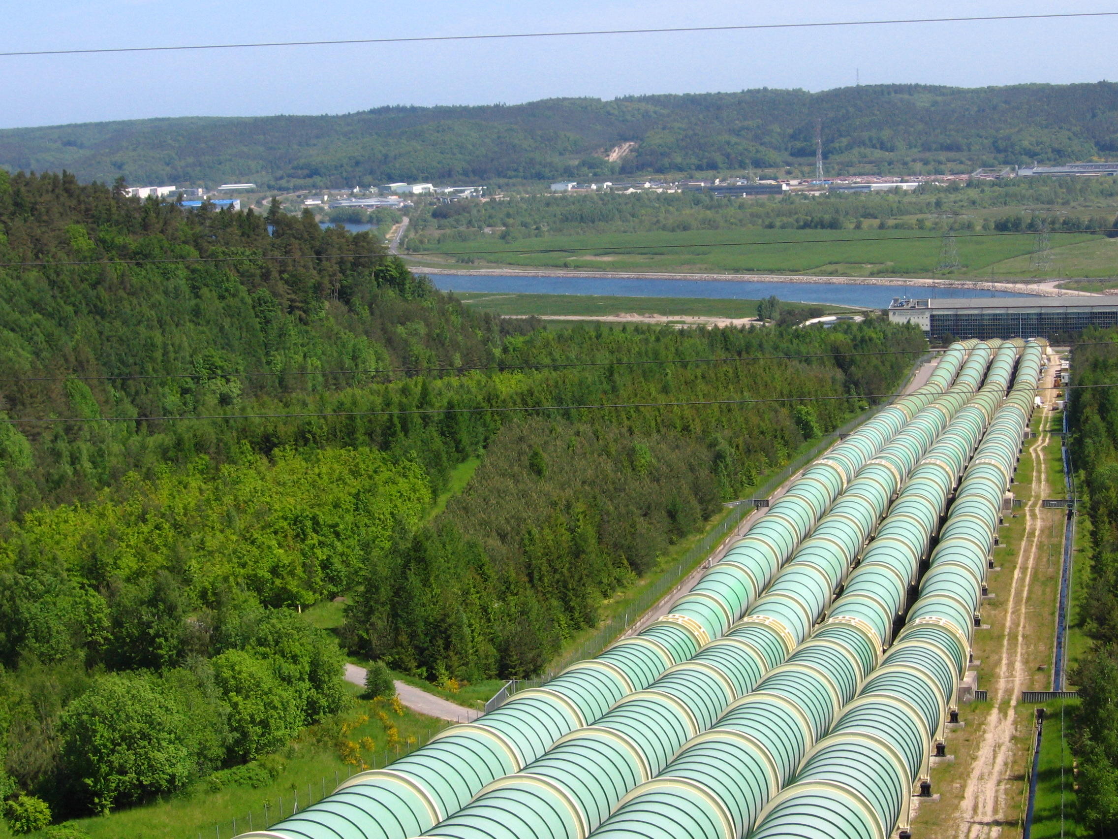 Penstocks of the Żarnowiec pumped-storage station